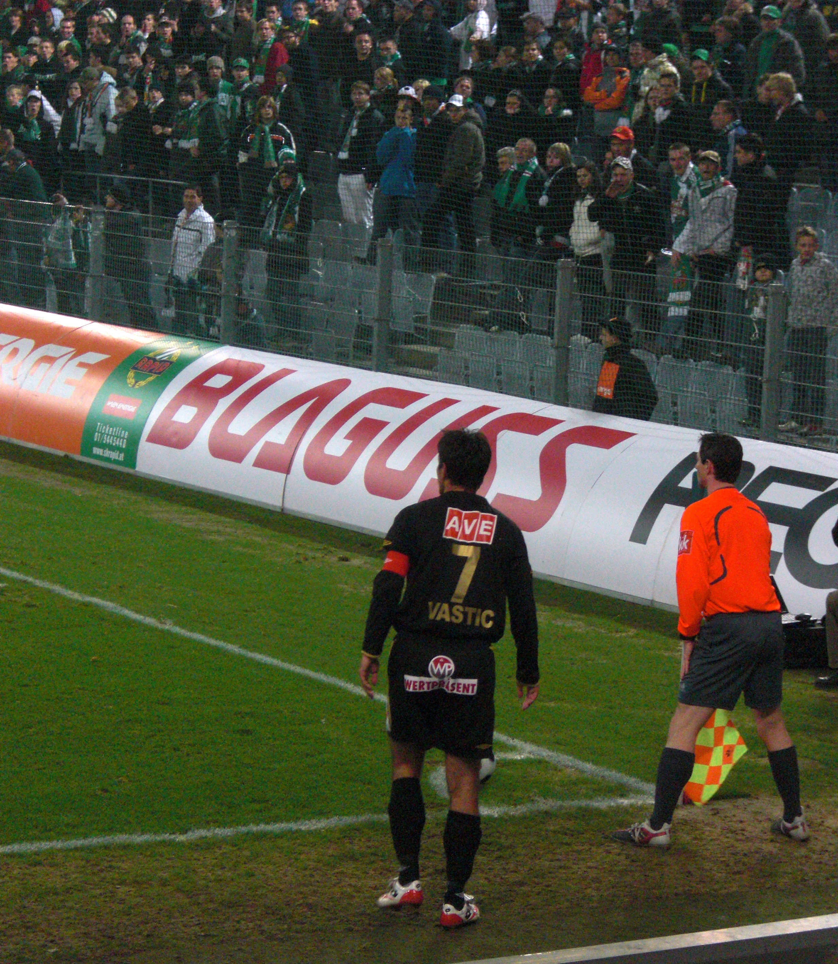 Image of Austrian Football-Player Ivica Vastic